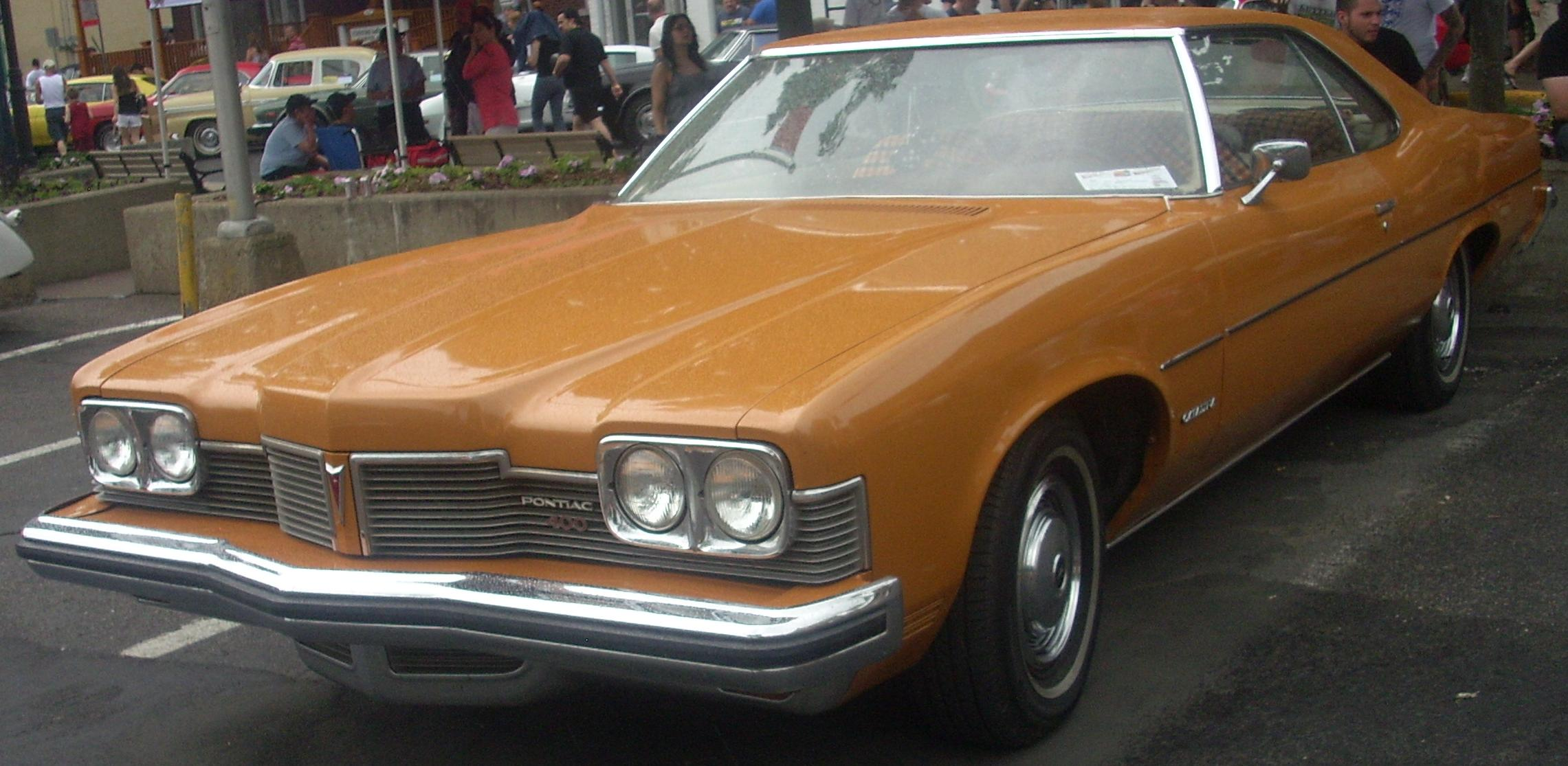 1973 Pontiac Catalina photographed in Ste. Anne De Bellevue, Quebec, Canada at Cruisin' At The Boardwalk 2010.